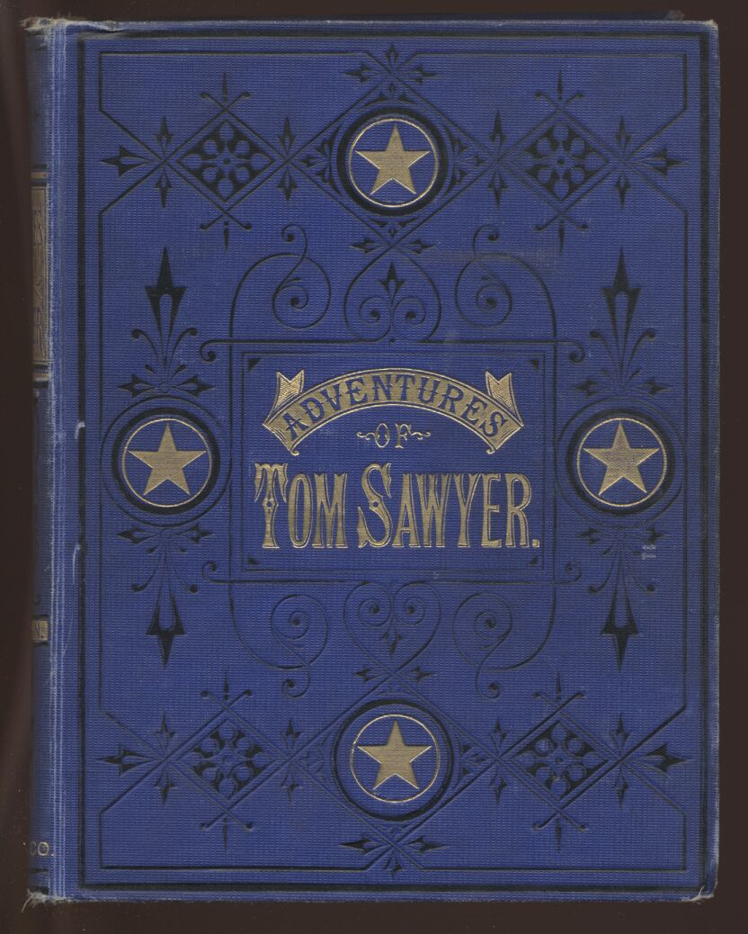 Illustrations de The Adventures of Tom Sawyer, 1876.